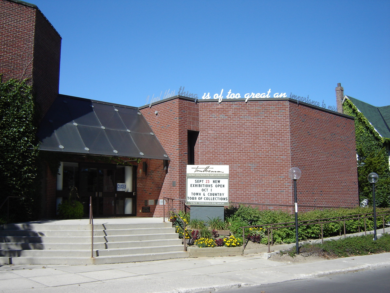 Tom Thomson Art Gallery, Owen Sound, photo by Jay Smith